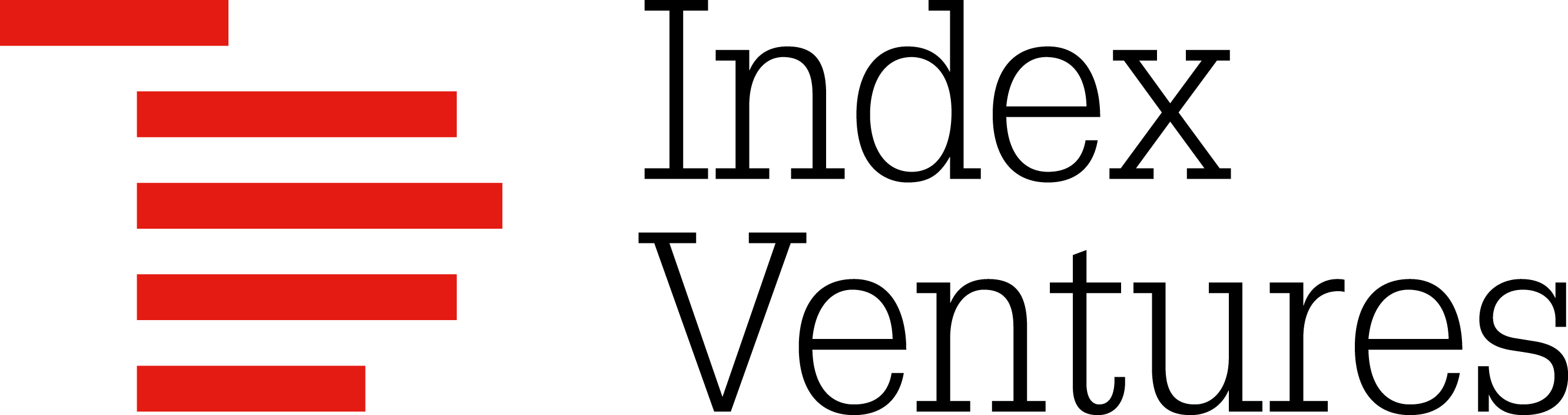 Logo of Index Ventures, a global venture capital firm, focused on making investments in information technology and life sciences companies.